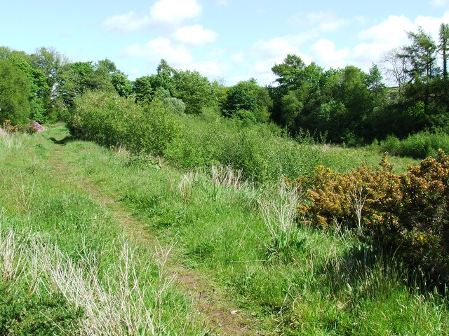 Skelmorlie Reservoir now drained. This reservoir burst in 1925, killing five people in the village below. The footpath run along the top of the dam, the reservoir was to the right.